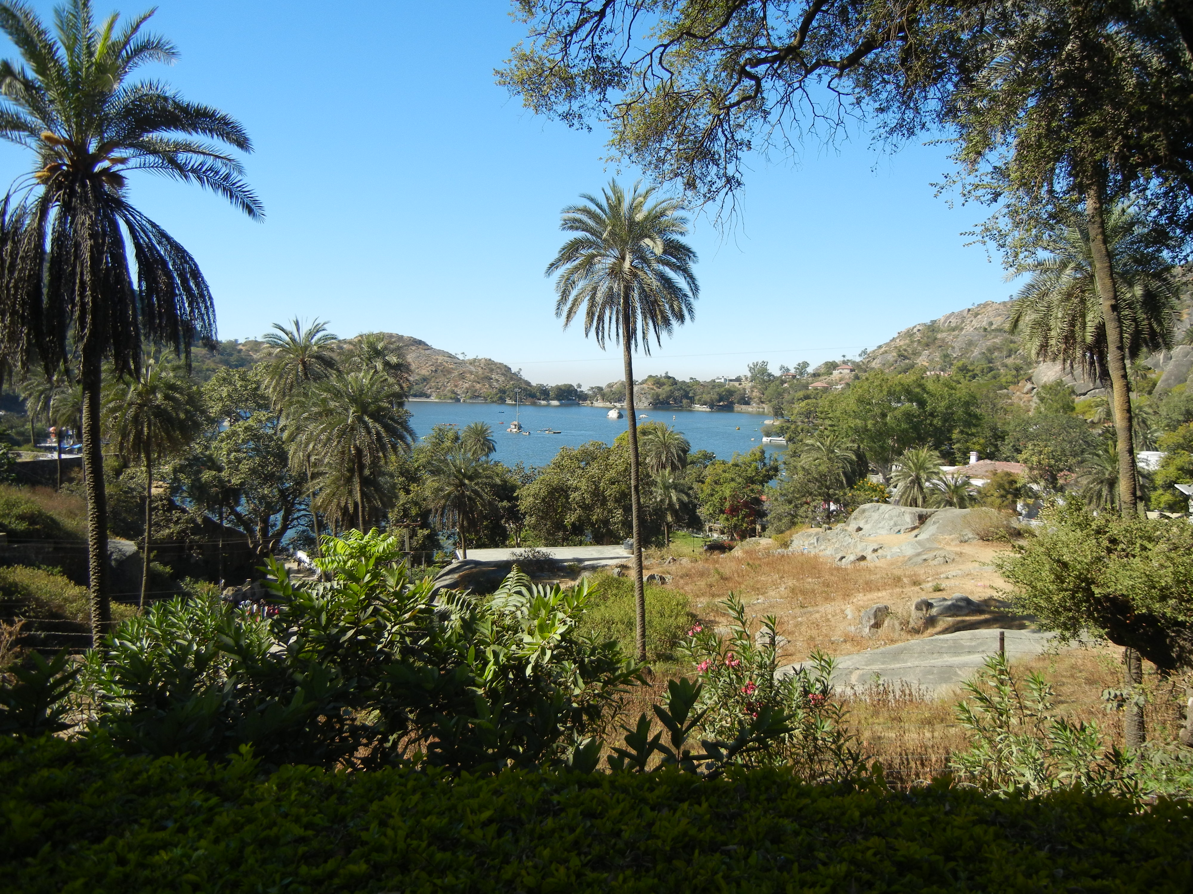 A view of the Nakki Lake, Mount Abu, Rajasthan from Mount Abu Wildlife Sanctuary.